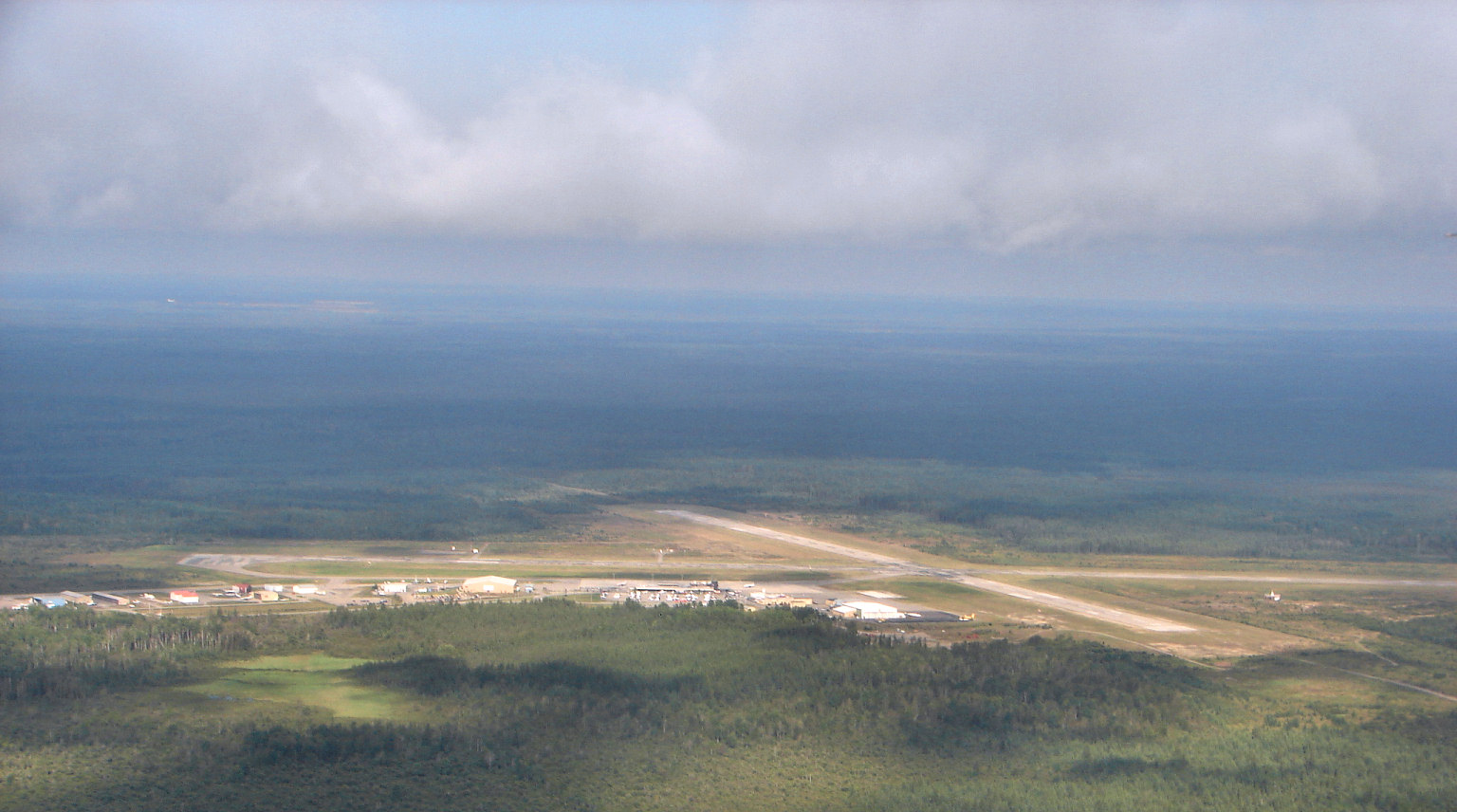 Aerial view of Timmins Airport, Ontario, Canada